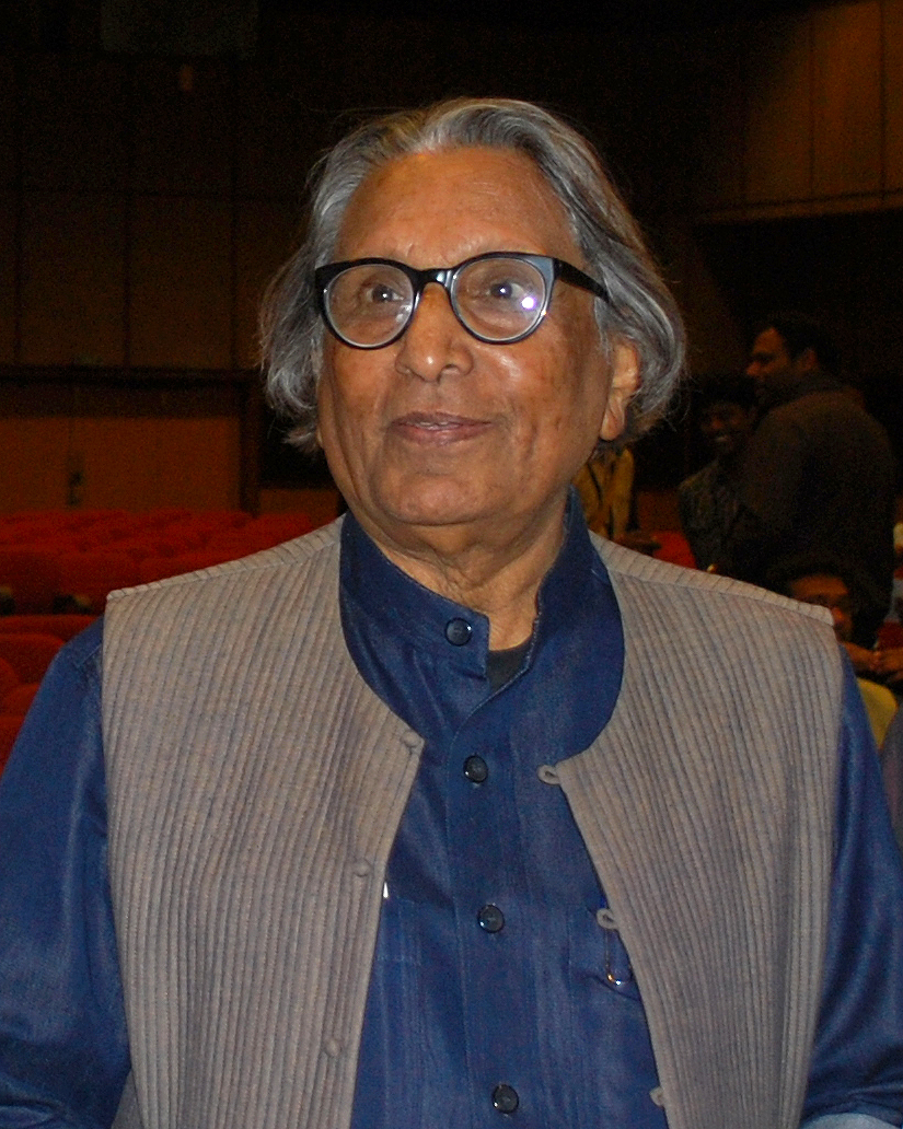 Balkrishna Doshi at IIA National Convention 2013 held at Chennai Trade Centre